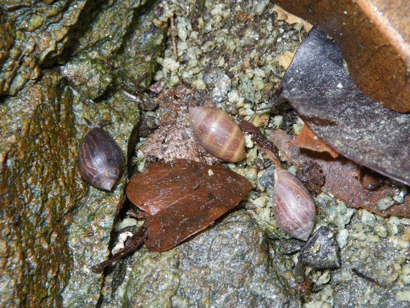 Melampus nuxeastaneus Kuroda,1949.at Nagasaki